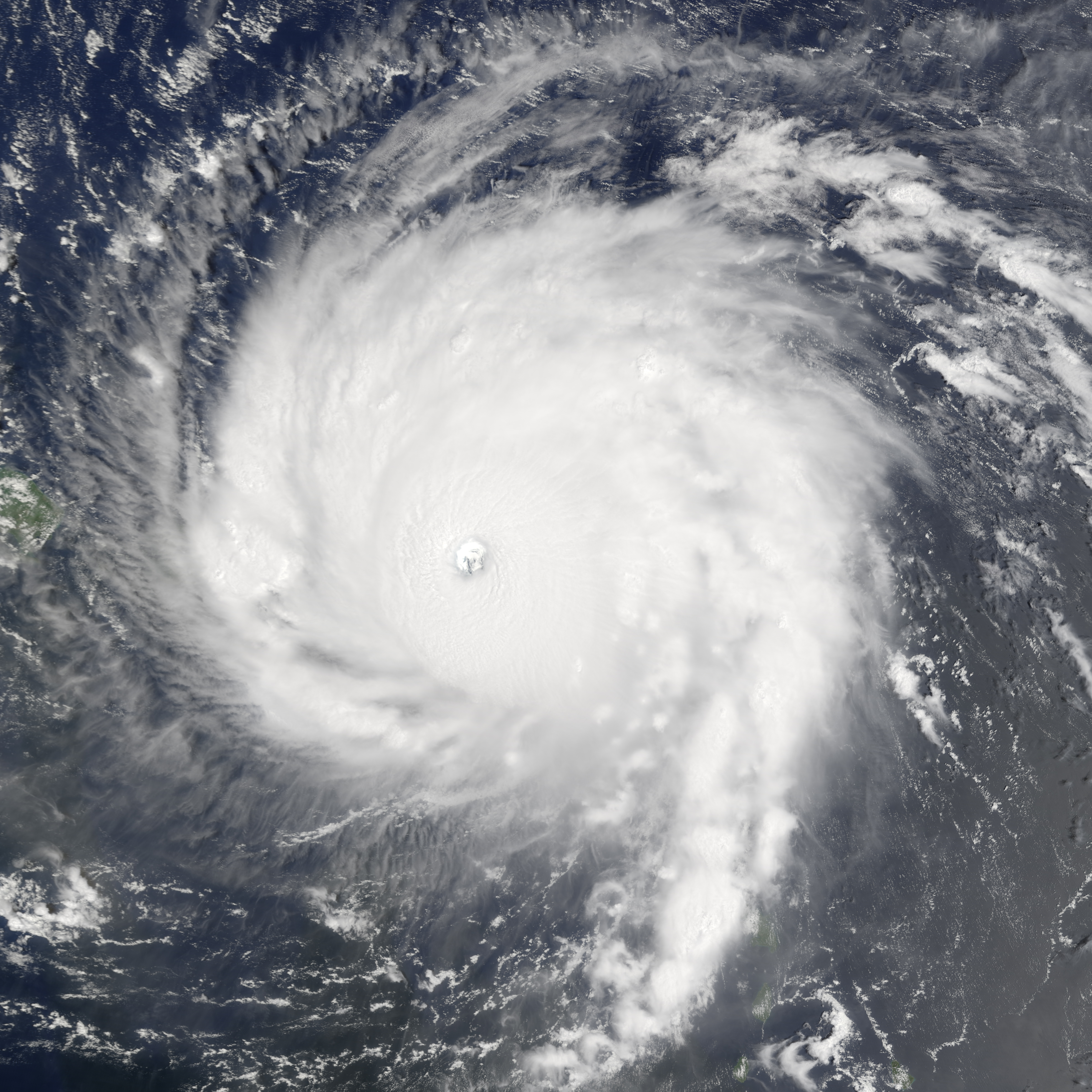 The Moderate Resolution Imaging Spectroradiometer (MODIS) on NASA’s Terra satellite acquired the third image at 10:35 a.m. local time (14:35 Universal Time) on September 6, 2017. By then, the storm had also hit Anguilla and was poised to strike the Virgin Islands.